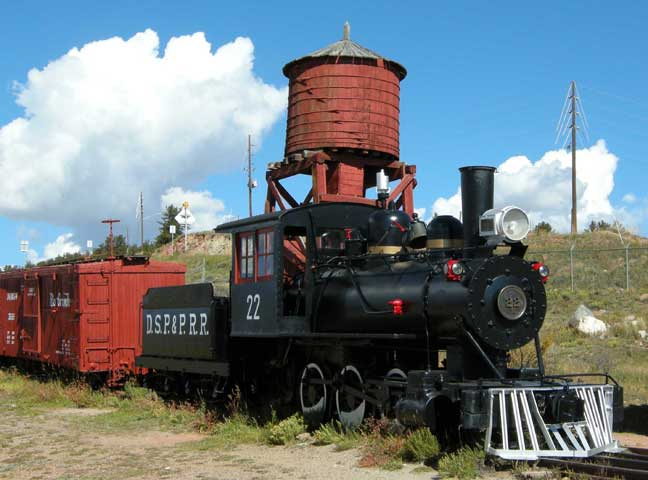 Denver and South Park Railway engine, South Park City museum, Fairplay CO